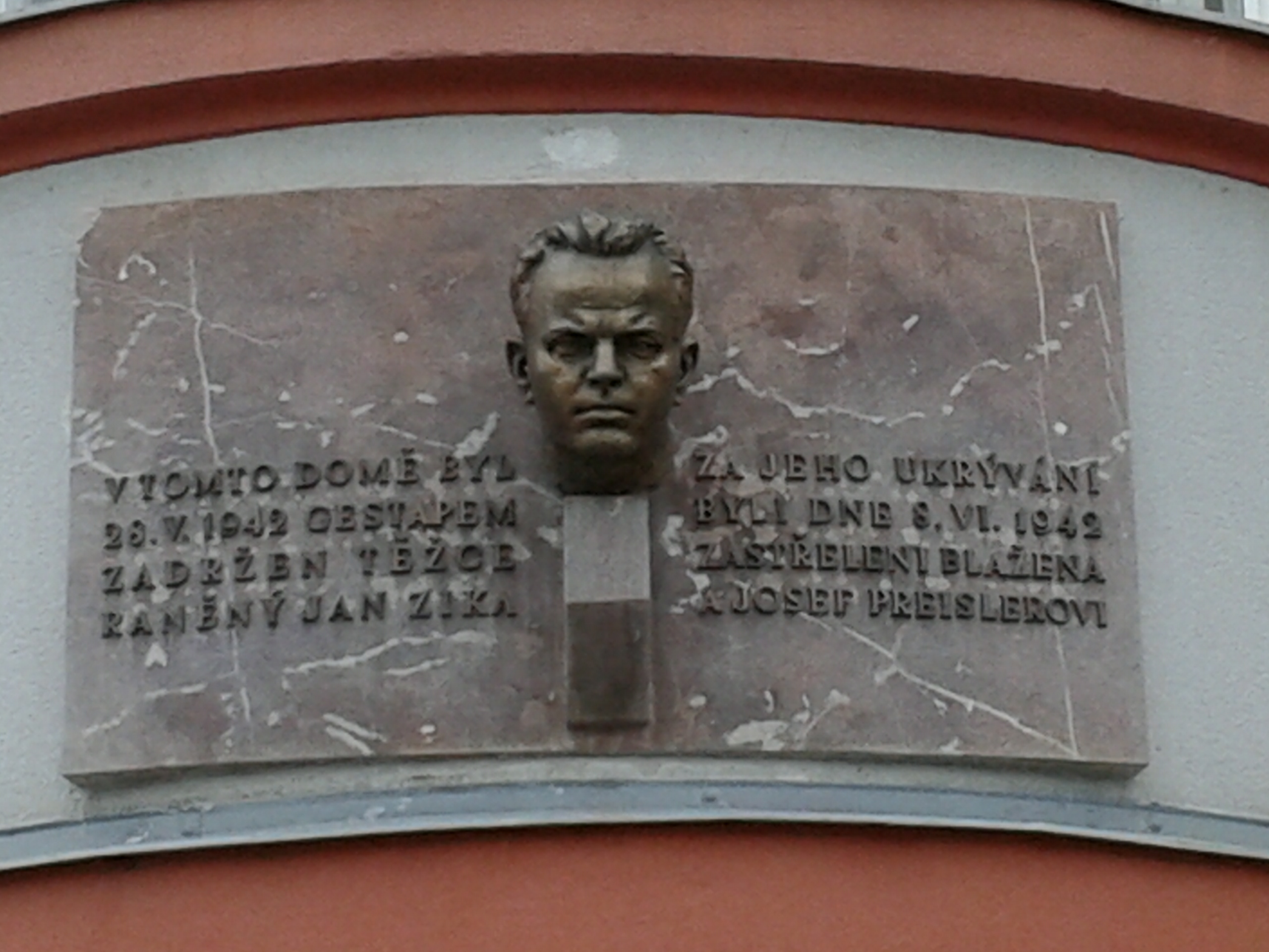 Commemorative plaque publicly accessible on the corner of the house in Prague 6, Na Malovance 724/6, Střešovice. The board is dedicated to Jan Zika (1902-1942). It was the Czechoslovak Communist functionary, journalist, politician and anti-Nazi fighter. The author of the bust is sculptor Jaroslava Lukešová (1920-2007).